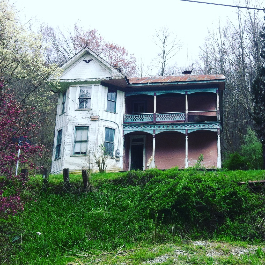 This photo shows an old Dingess residence in Dingess, WV.